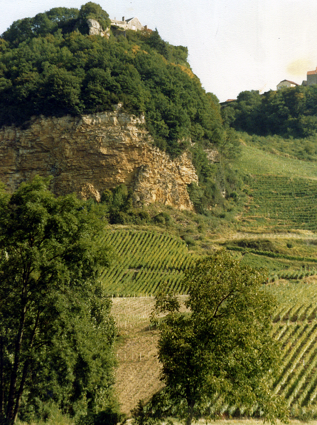 Image of vineyard areas in the Jura region of France.